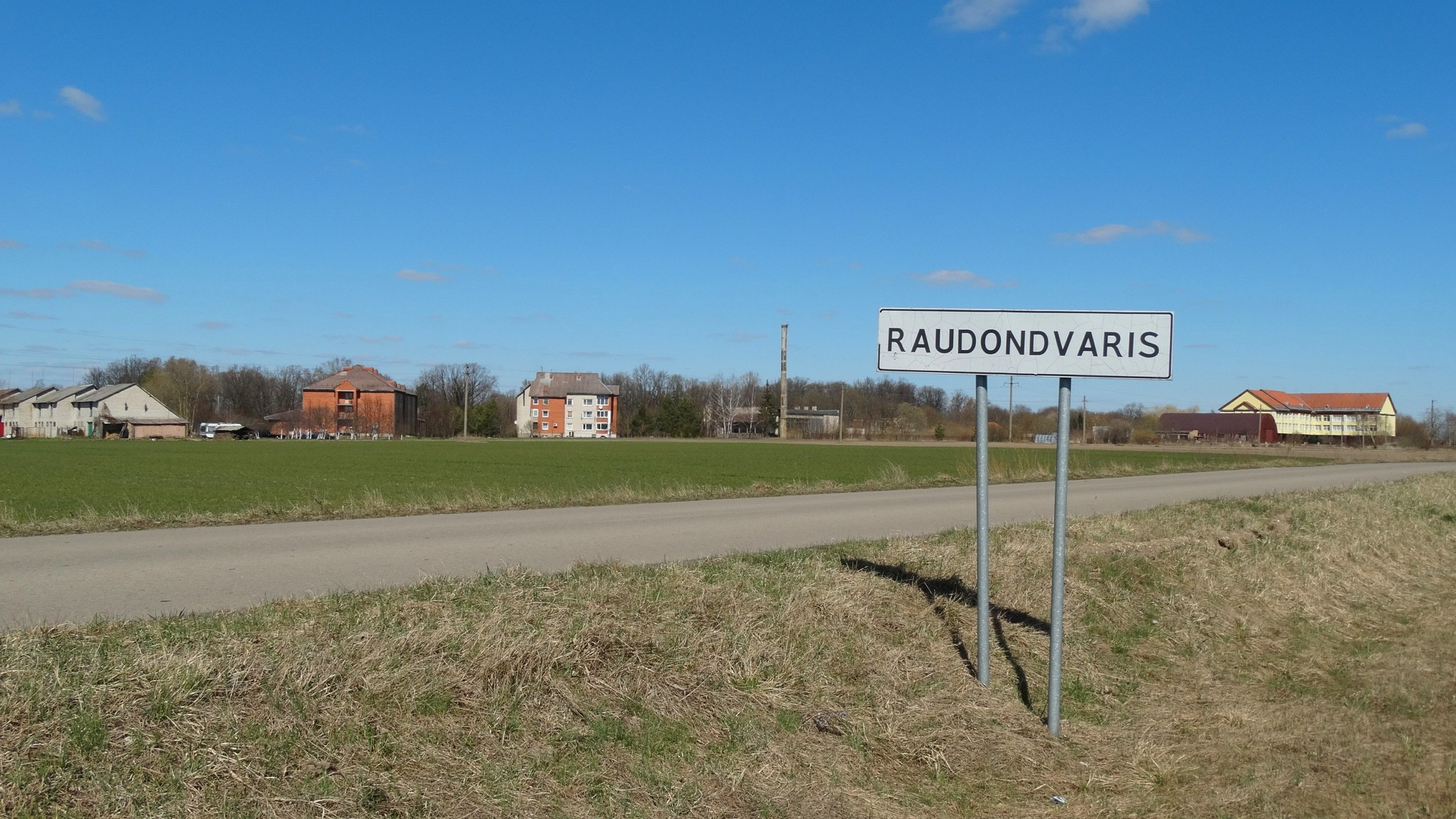 Raudondvaris, Radviliškis district, Lithuania